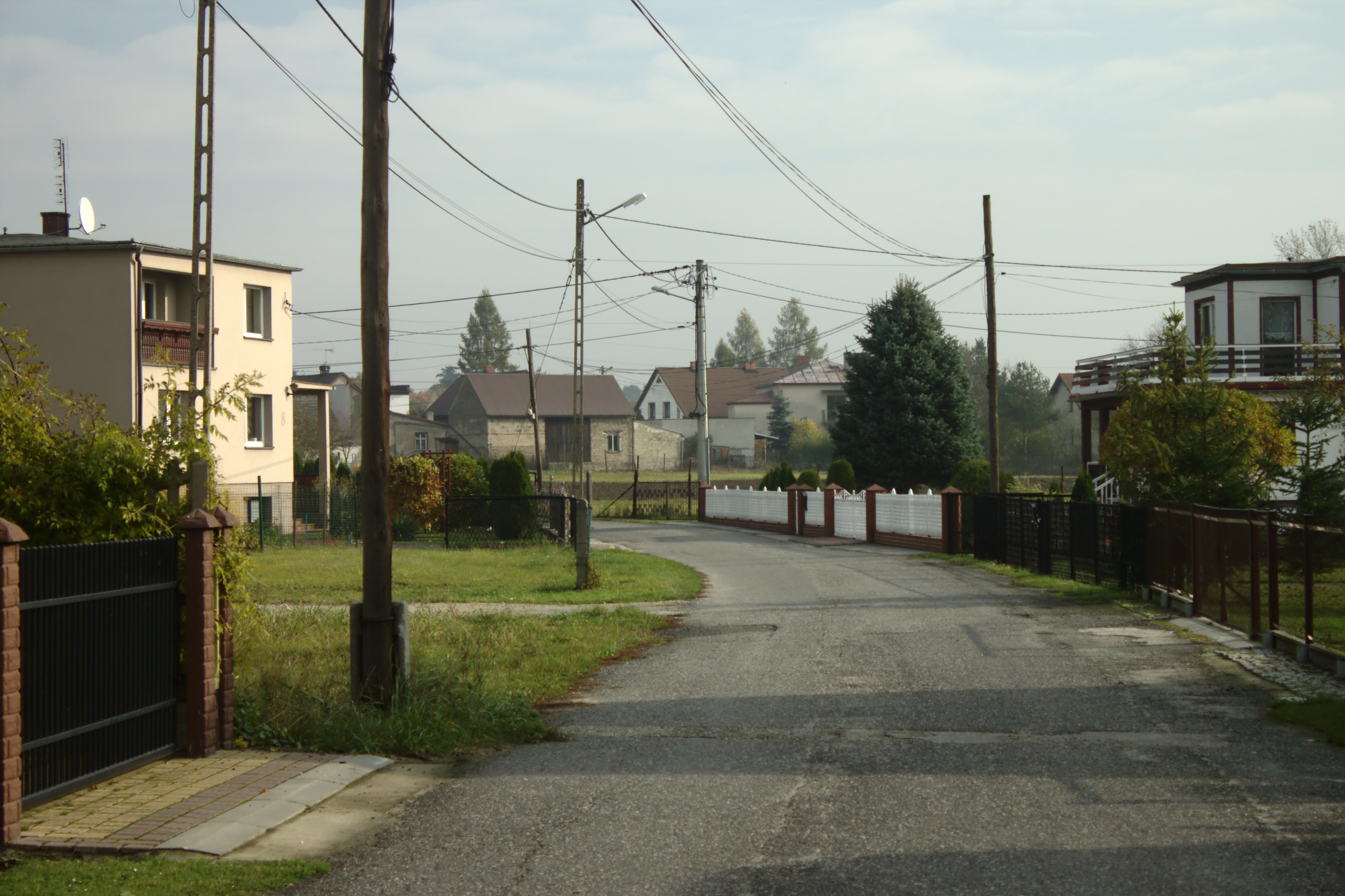 Buildings in Ortowice, Poland